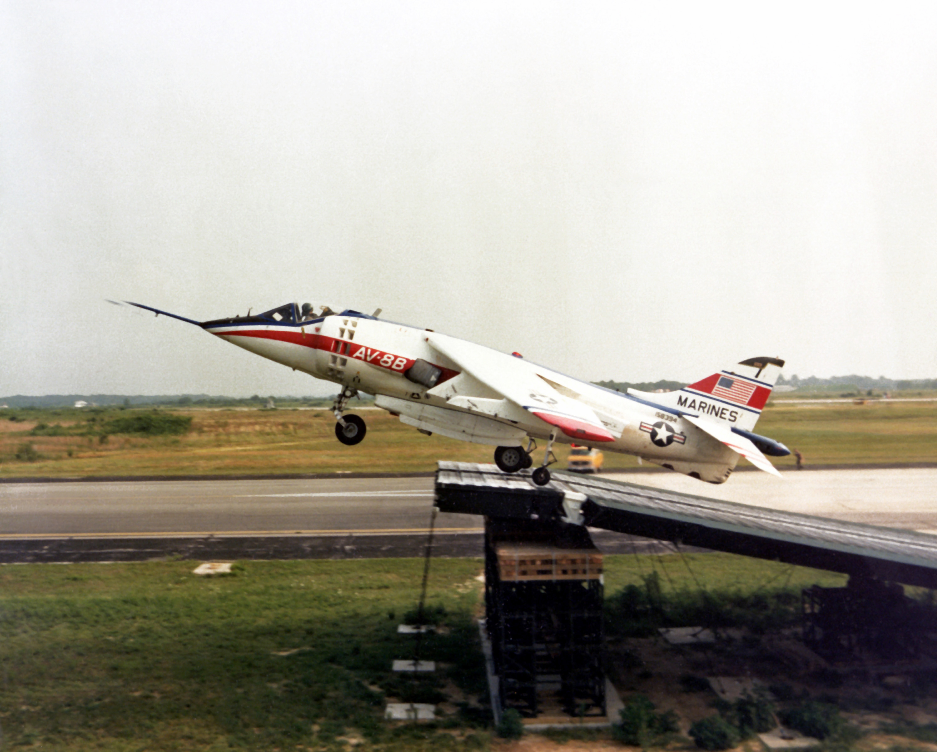 NAS Patuxent River, Maryland: Operation Ski Jump was the test taking off of a Marine Corps YAV-8B Harrier aircraft, from a specially built ramp constructed by the Bridge Co., 8th Engineer Support Bn., 2nd Mar. Div., Fleet Marine Force, Camp Lejeune, N.C.